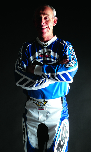 Malcolm Smith iconic motorcyclist.